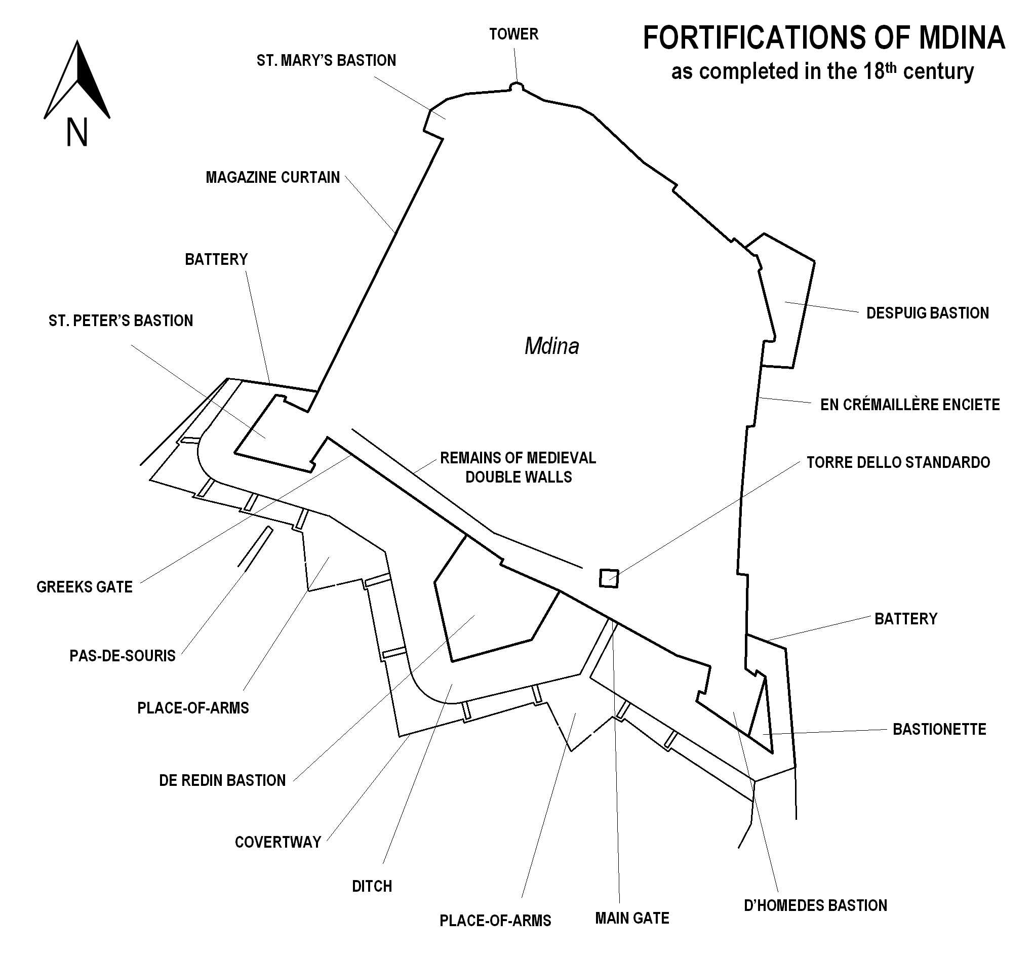 Map of the fortifications of Mdina, Malta as completed after the 18th century modifications (1722-46).